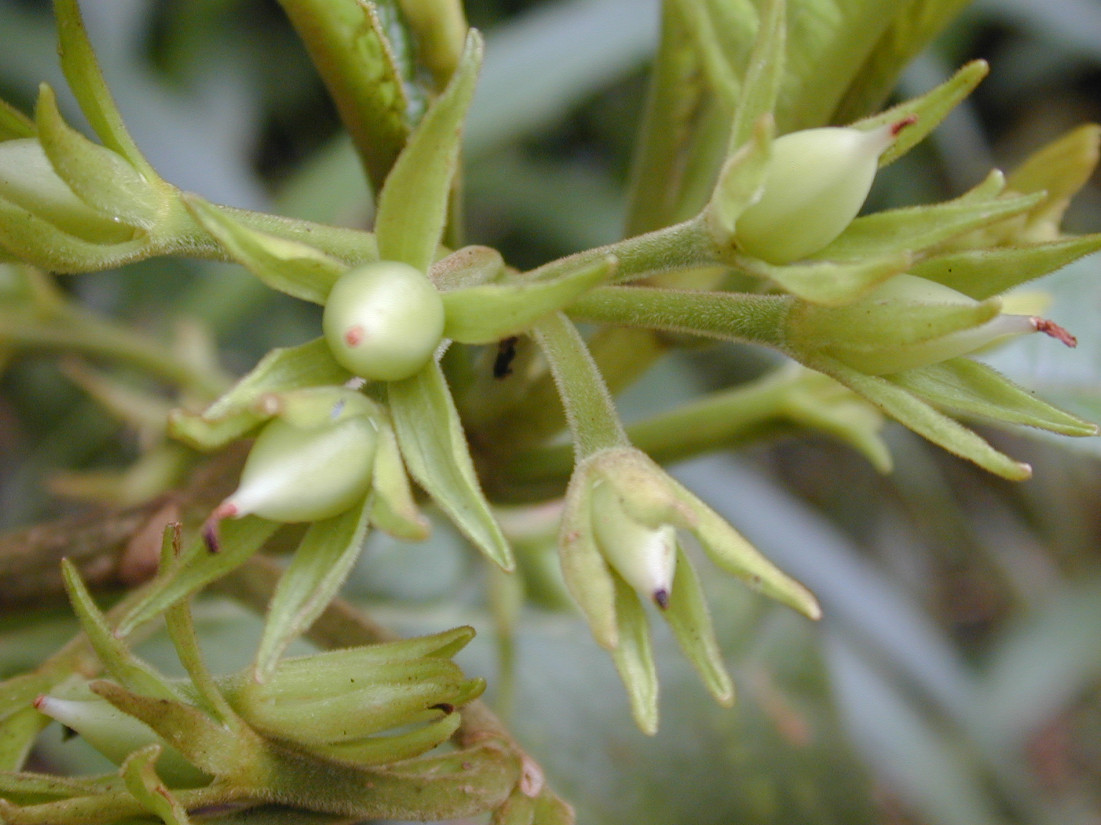 Cyrtandra platyphylla (leaves and flowers). Location: Maui, Makawao Forest Reserve